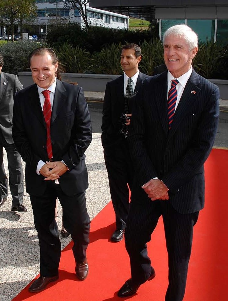 Ambassador Thomas F. Stephenson and Helder F. Antunes at an event at Cisco Portugal, 2009, Oeiras.